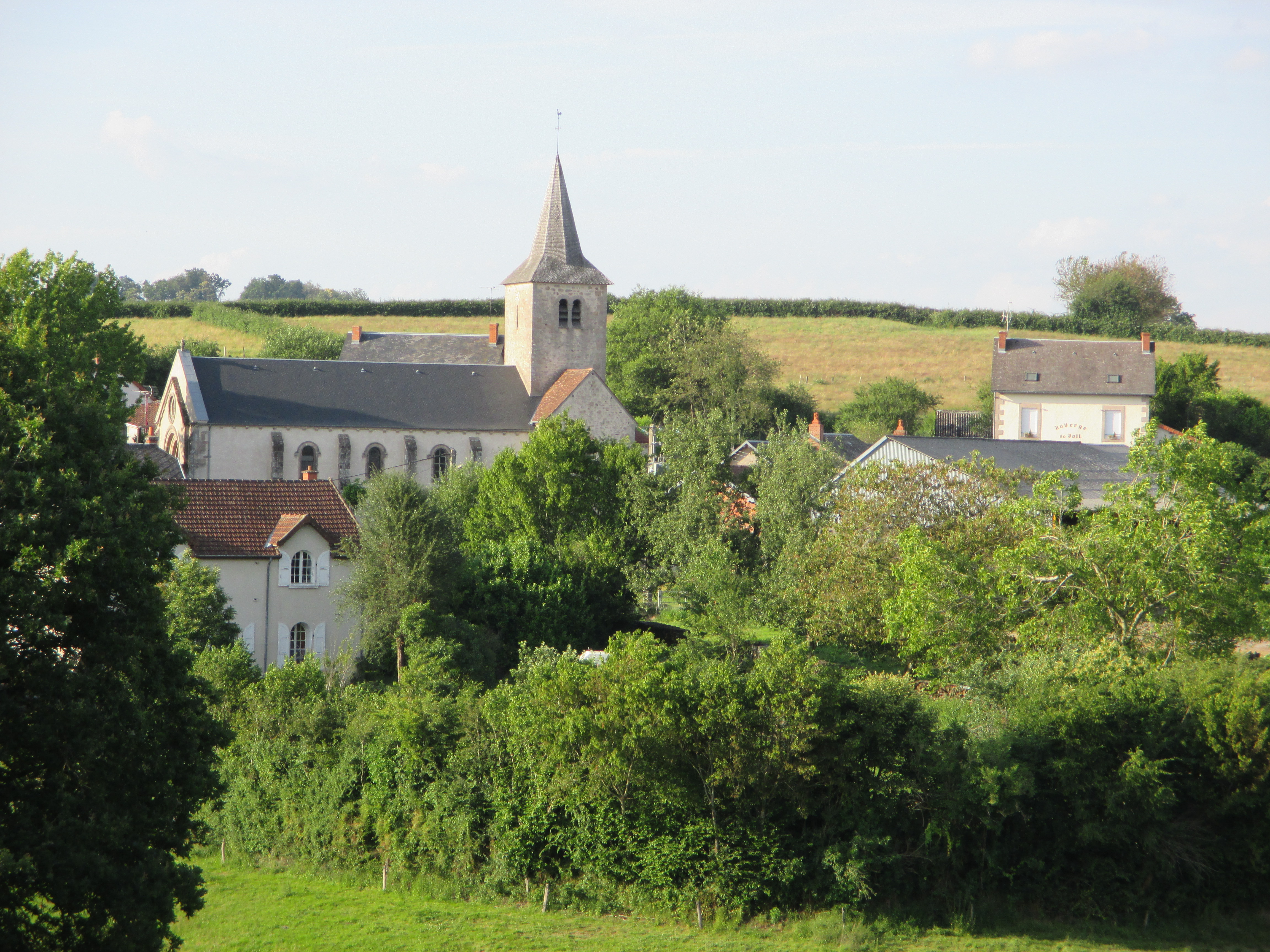 General view of Poil (Nièvre, France) from the west.